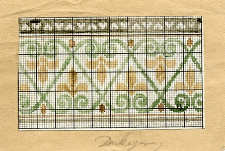 Embroidery pattern designed by the Danish artists Kristiane Konstantin-Hansen (1848-1925) and Johanne Bindesbøll (1851-1934), held in the Vejen Kunstmuseum